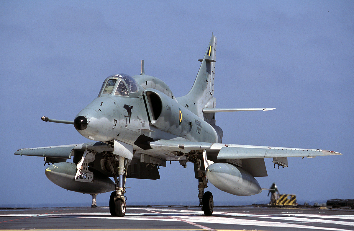 After landing, this A-4 taxies to its parking spot.